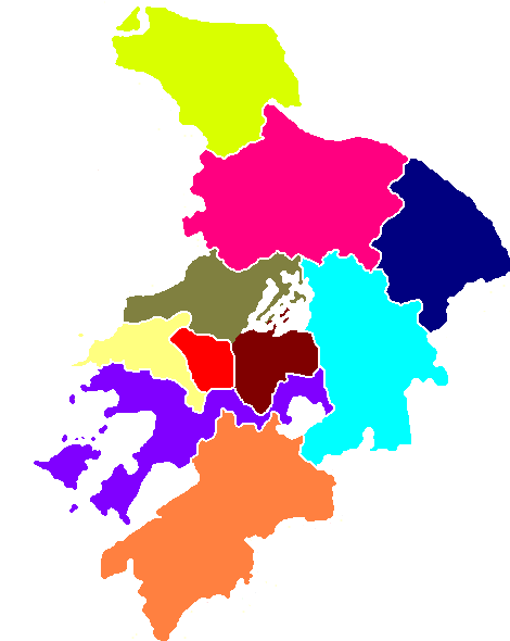 Subdivision of Suzhou